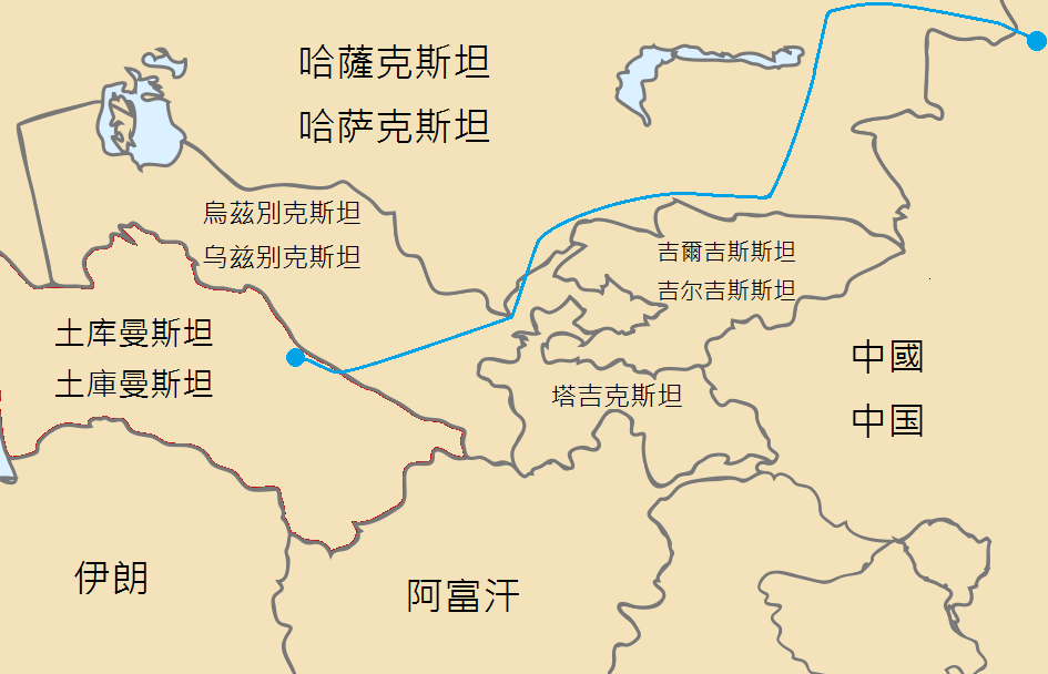 Map of the route of the Central Asia – China gas pipeline